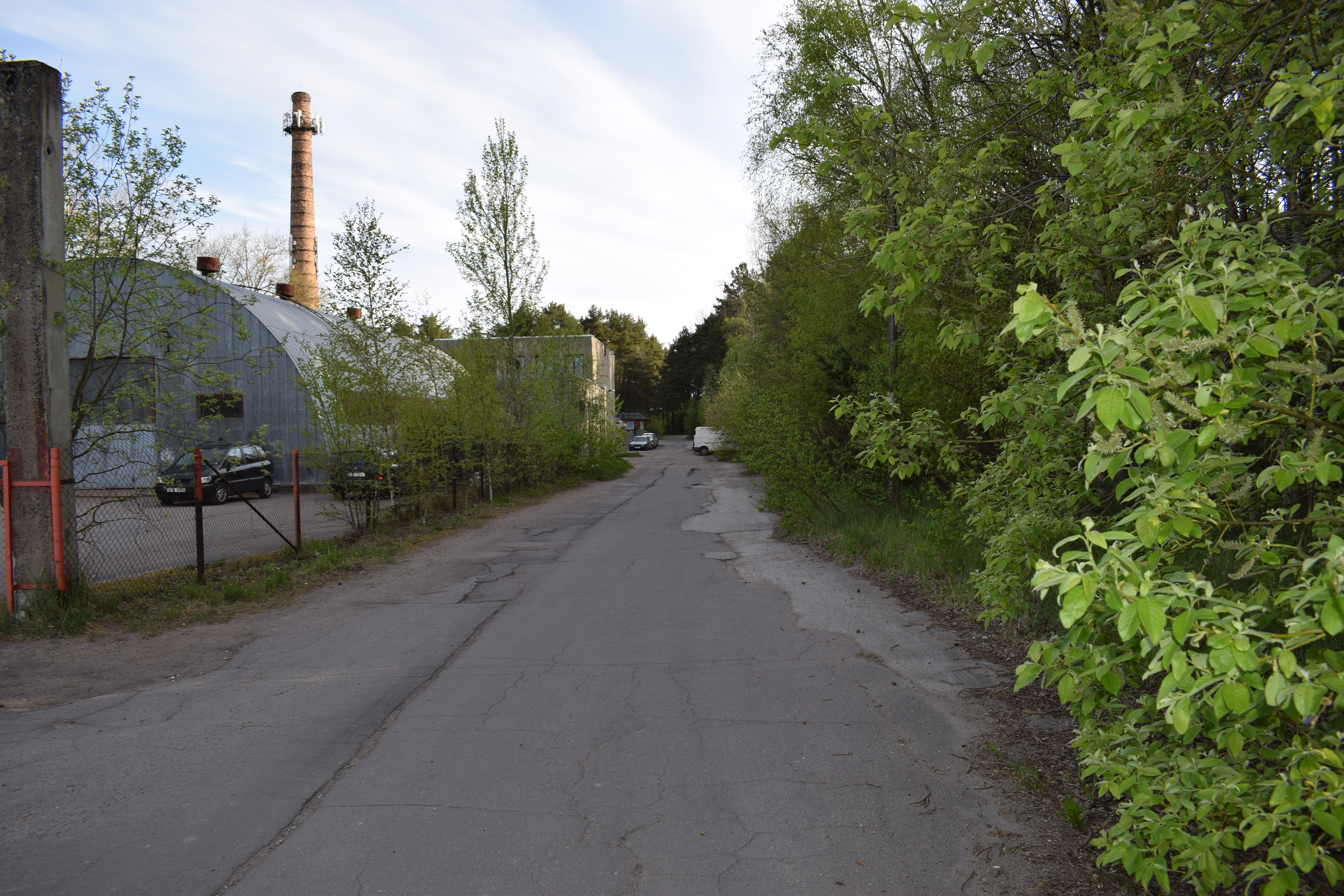 Hunditubaka tee